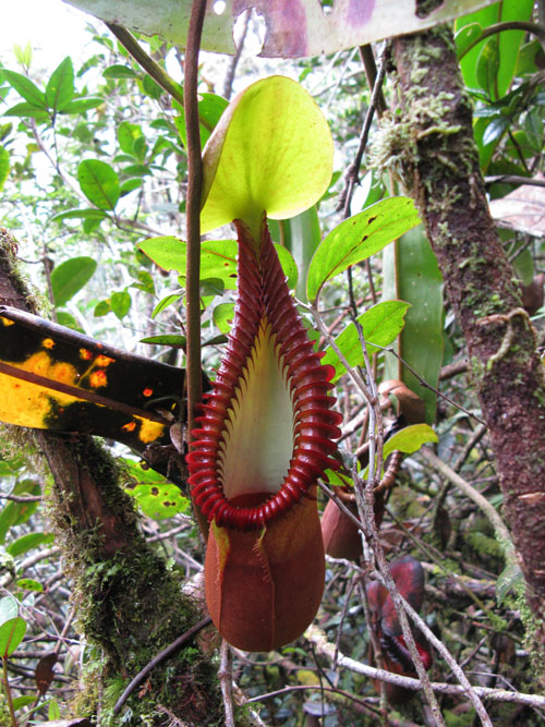 N.macrophylla